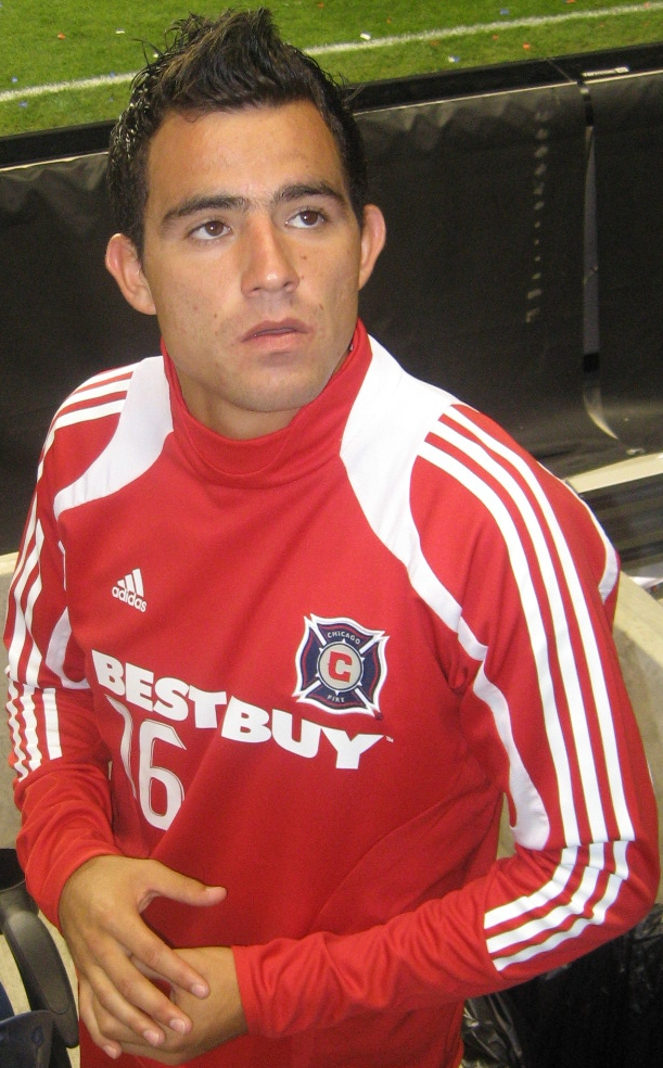 Marco Pappa of Chicago Fire Toyota Park August 16, 2008